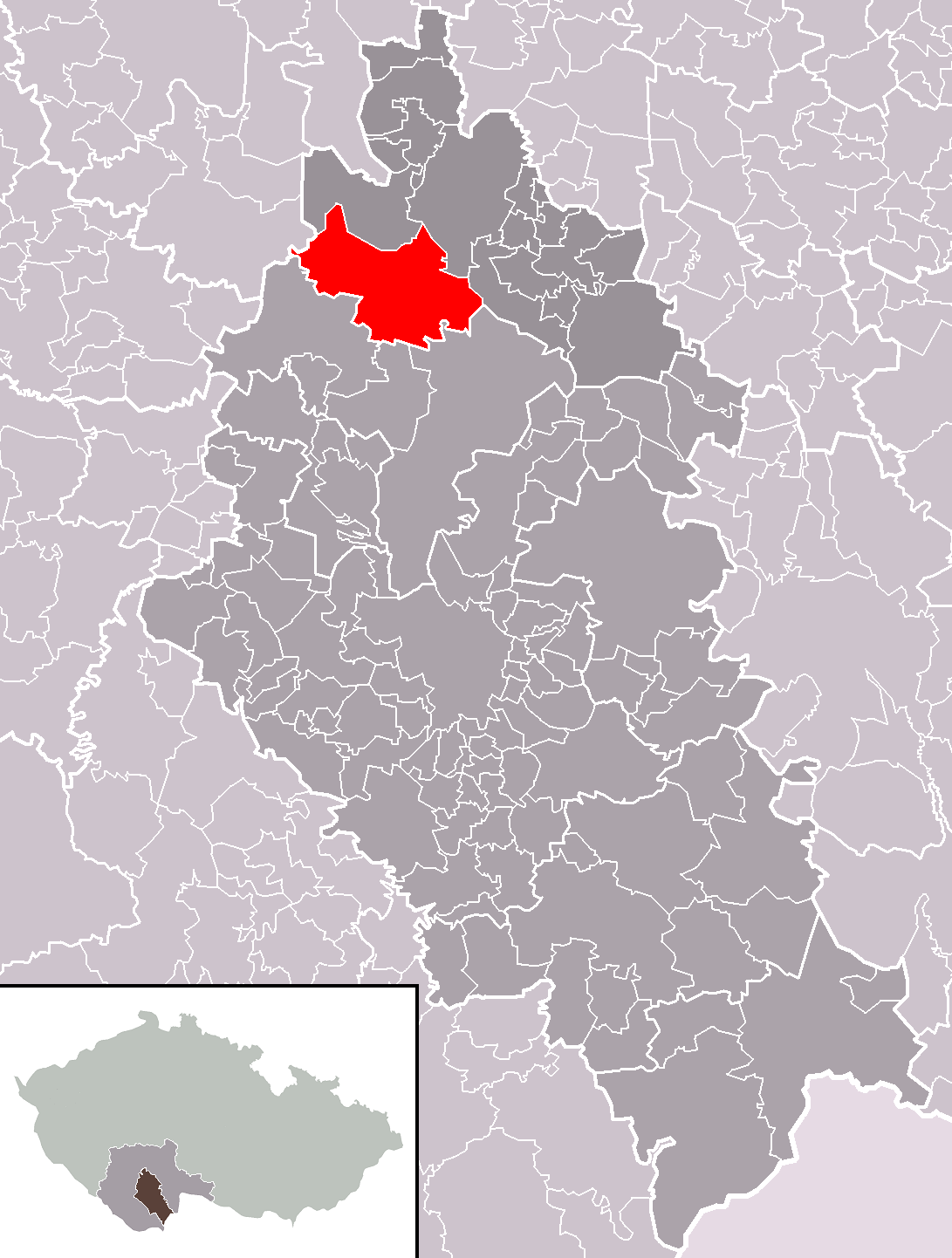 Location of Temelín municipality within České Budějovice District and administrative area of Týn nad Vltavou as a Municipality with Extended Competence.